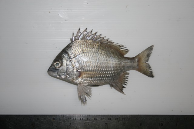 Acanthopagrus berda (Forsskål, 1775)